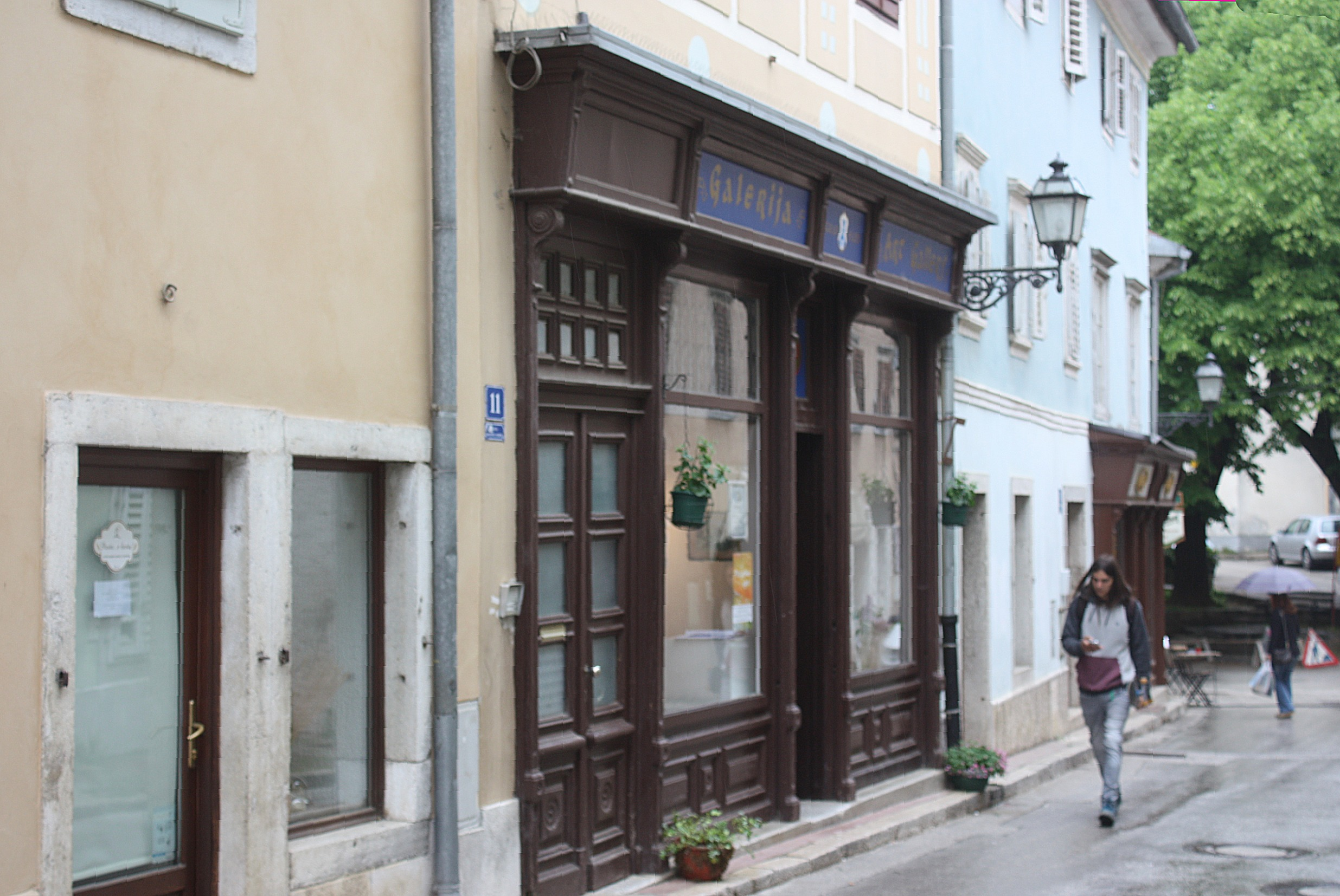 Pazin, shop on the street Ulica Franine i Jurine